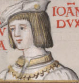 John of Gaunt